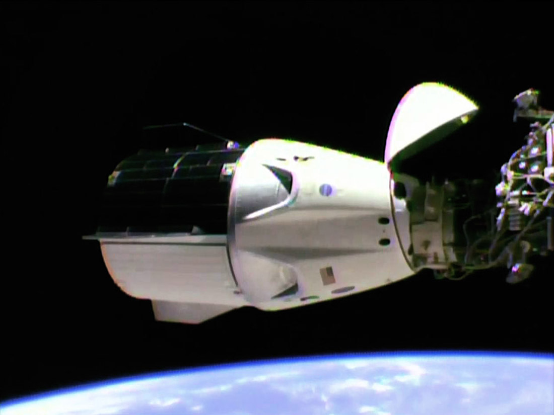 The SpaceX Crew Dragon is docked to the station’s international docking adapter which is attached to the forward end of the Harmony module.